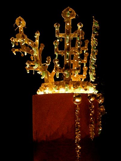 National Treasure No. 191 according to